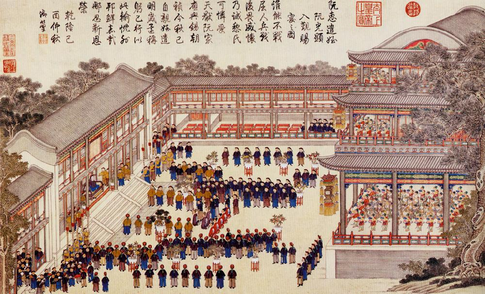 Nguyẽn Huệ's nephew, Nguyễn Quang Hiển in Peking, Qing's CapitalTiếng Việt: Cháu của Nguyễn Huệ, Nguyễn Quang Hiển, đang trình Trần tình biểu lên các quan nhà Thanh